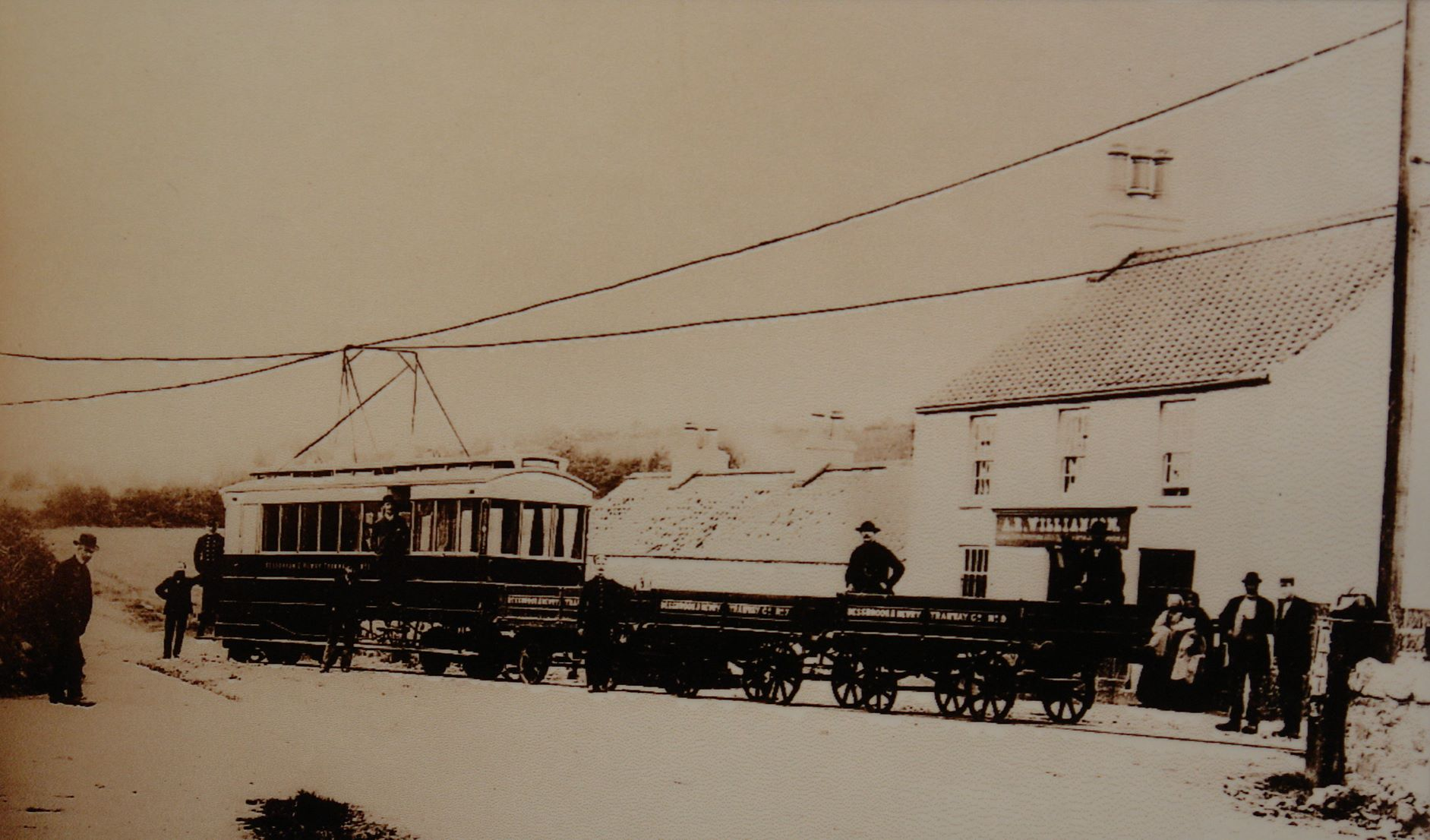 The Millvale level-crossing of the Bessbrook and Newry Tramway, the 1st successful use of overhead power cables. Old photograph exhibited at Ulster Transport Museum, Cultra.